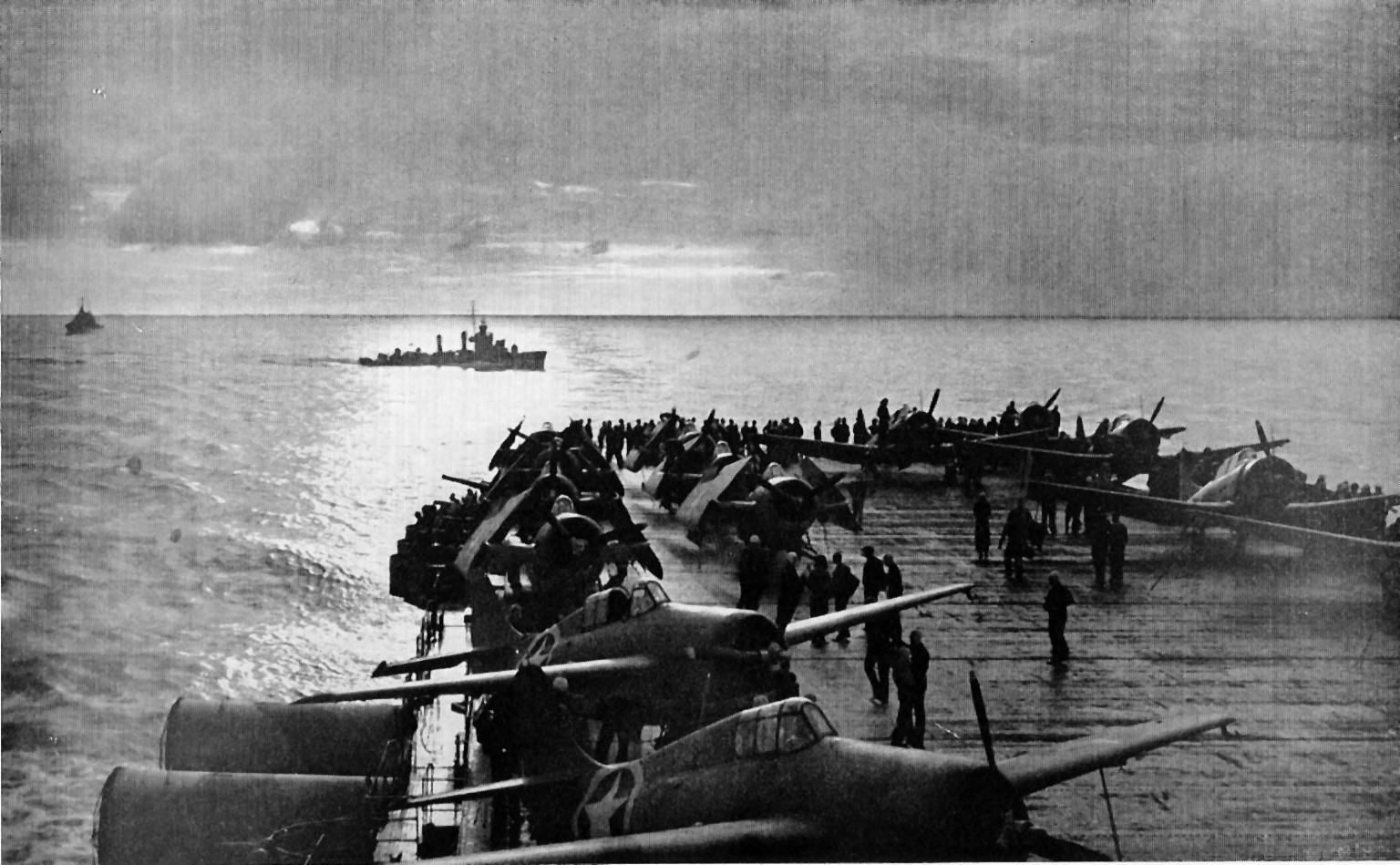 A U.S. Navy Gleaves-class destroyer passing aft of the aircraft carrier USS Ranger (CV-4) off North Africa on 8 November 1942. The Air Group Screen was composed of the light cruiser USS Cleveland (CL-35) and Detroyer Division 10, consisting of USS Ellyson (DD-454), USS Forrest (DD-461), USS Fitch (DD-462), USS Corry (DD-463), and USS Hobson (DD-464). Nine Grumman F4F-4 Wildcat fighters and five Douglas SBD-3 Dauntless dive bombers are visible on the flight deck. Note Ranger´s distinctive stacks in the left foreground.